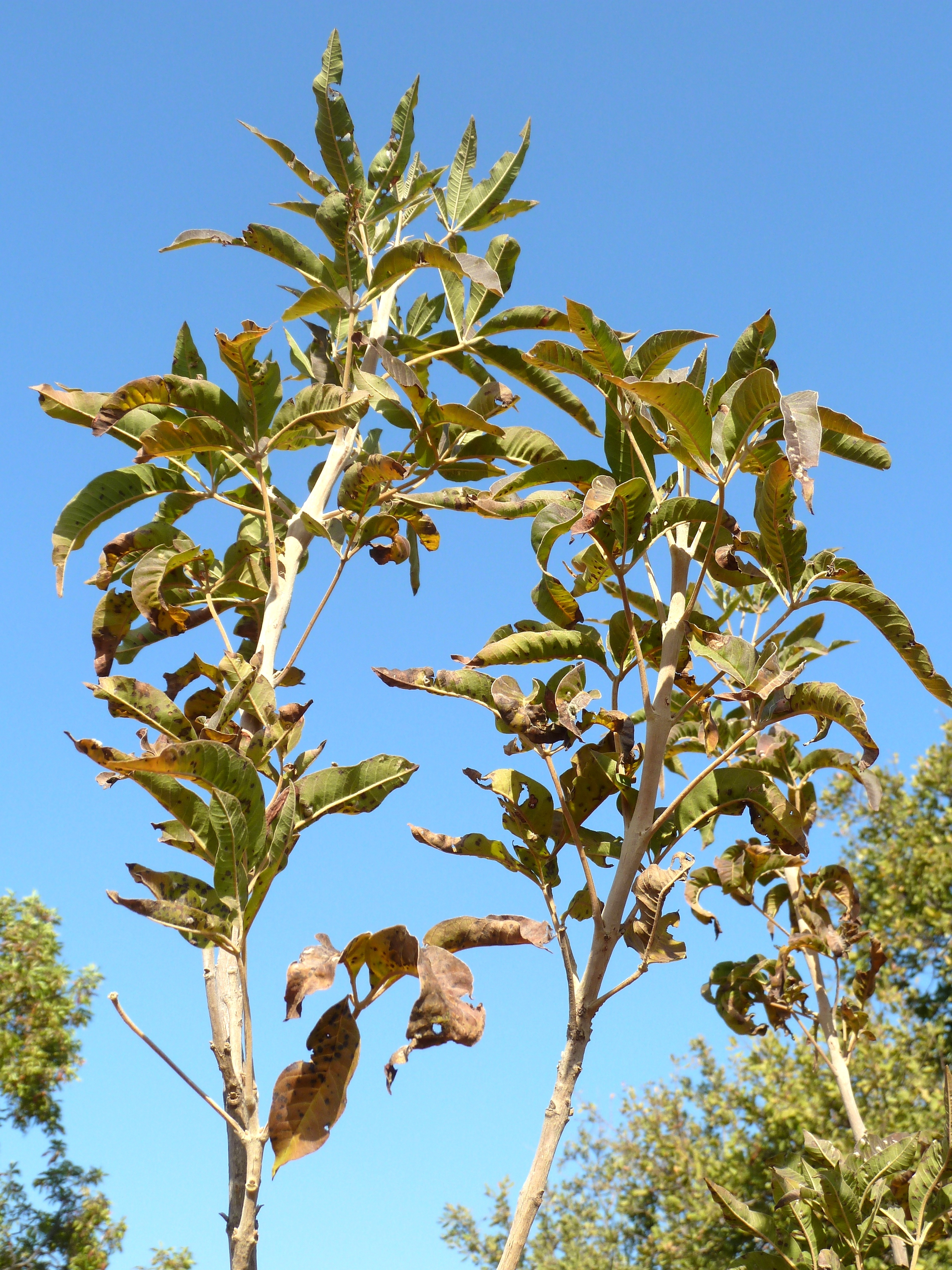 Foliage of a Pipe-stem tree, Waterberg, South Africa